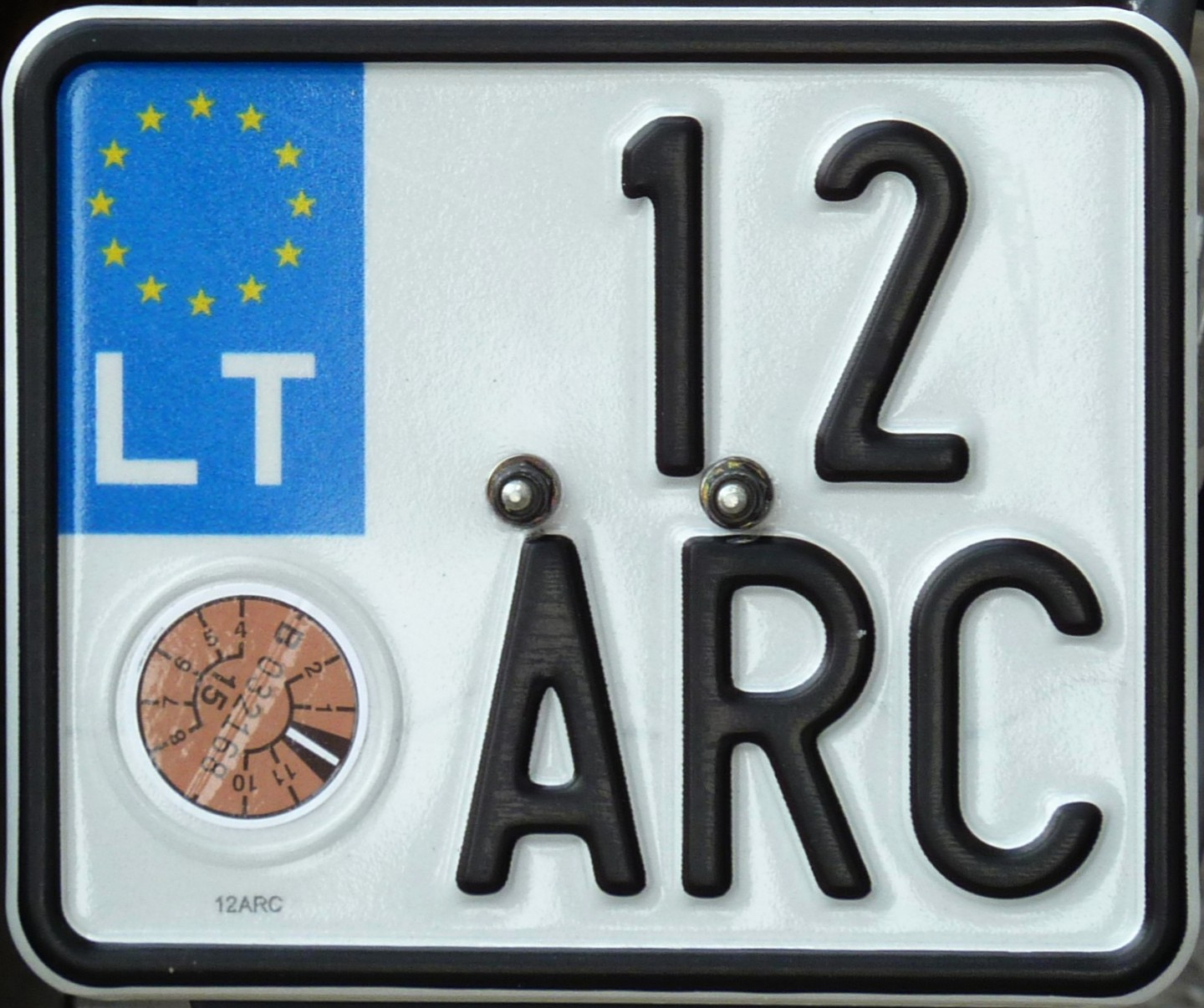 Lithuanian license plate for small motorcycles